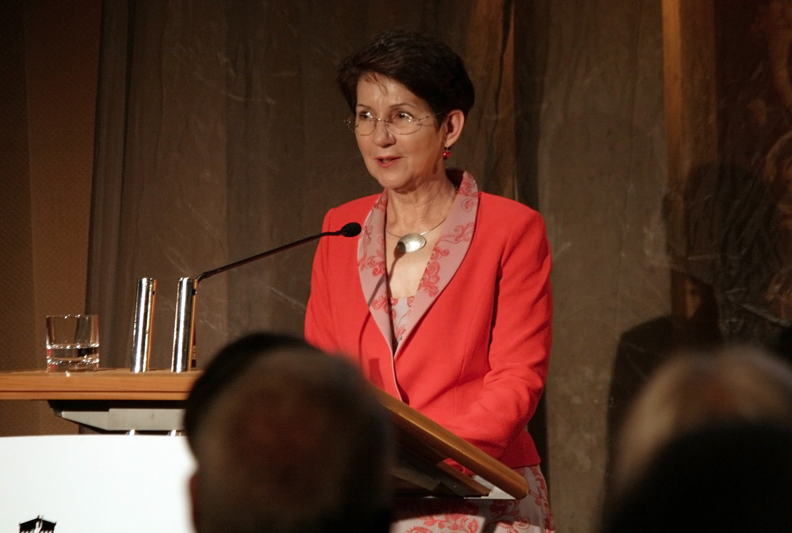 Barbara Prammer, 43. Fernsehpreis der Österreichischen Erwachsenenbildung at the Budget Hall of the Austrian Parliament Building in Vienna.